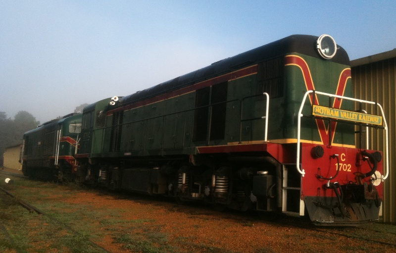 C1702 of the Hotham Valley Railway at Dwellingup in 2011. Corporal29 (talk) 07:33, 3 September 2011 (UTC) category: locomotives